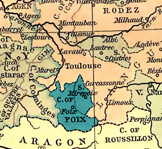 From The Historical Atlas by William R. Shepherd, 1926. via [1]